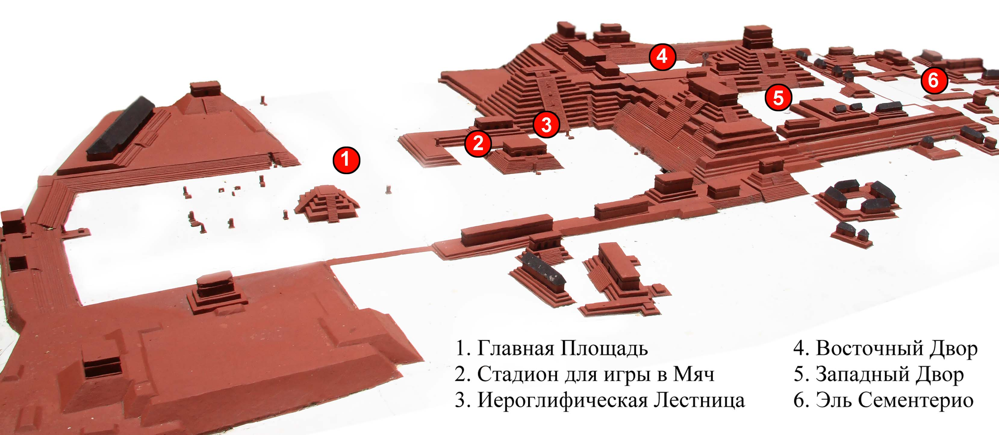 Center of Copan. Legend: 1. Main Group; 2. Ballcourt; 3. Hieroglyphic Stairway; 4. East Court; 5. West Court; 6. Cemetery Group